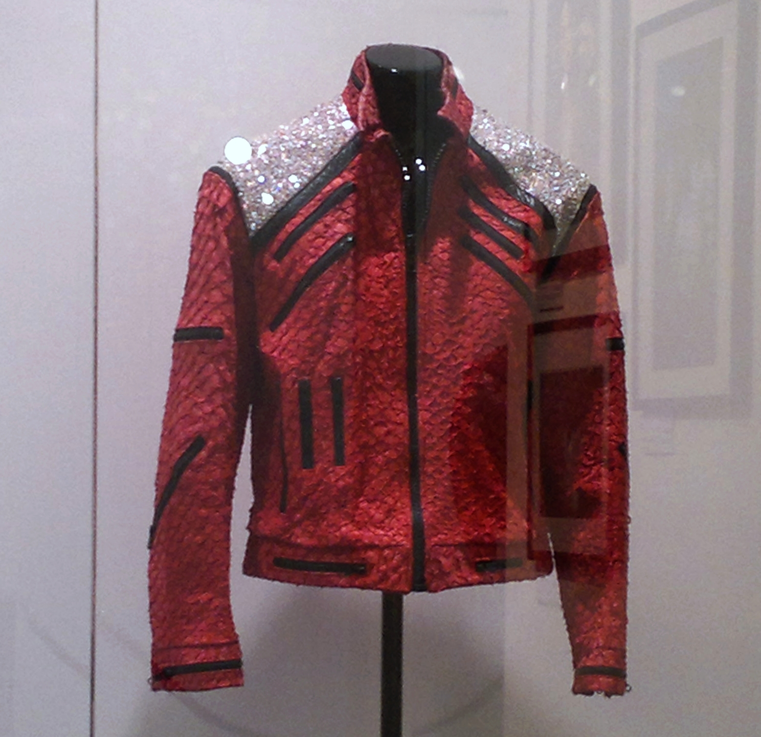 Jacket with real red scales and rhinestones worn by Michael Jackson during the performance of “Beat It” on his Dangerous World Tour (1992-93). The jacket was exhibited in a display of Cirque du Soleil.